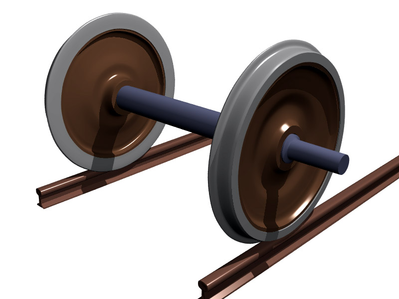 Rolling stock standard axle on rail Personal 3D model made with Hamapatch and Povray